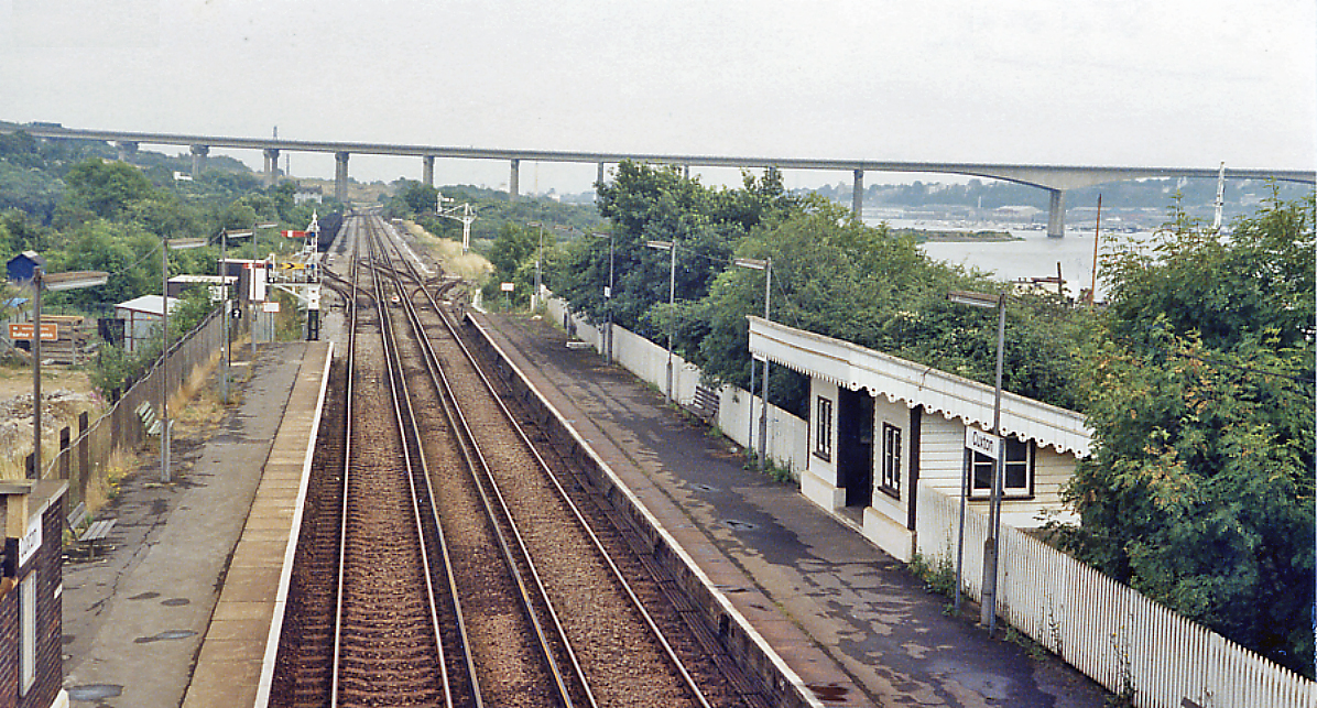 Cuxton station and M2 motorway crossing Medway, 1983. View northward, towards Strood: ex-South Eastern & Chatham, Strood - Maidstone West line. More recently the Channel Tunnel Rail Link (HS1) has been built across the estuary parallel to the motorway on this side.